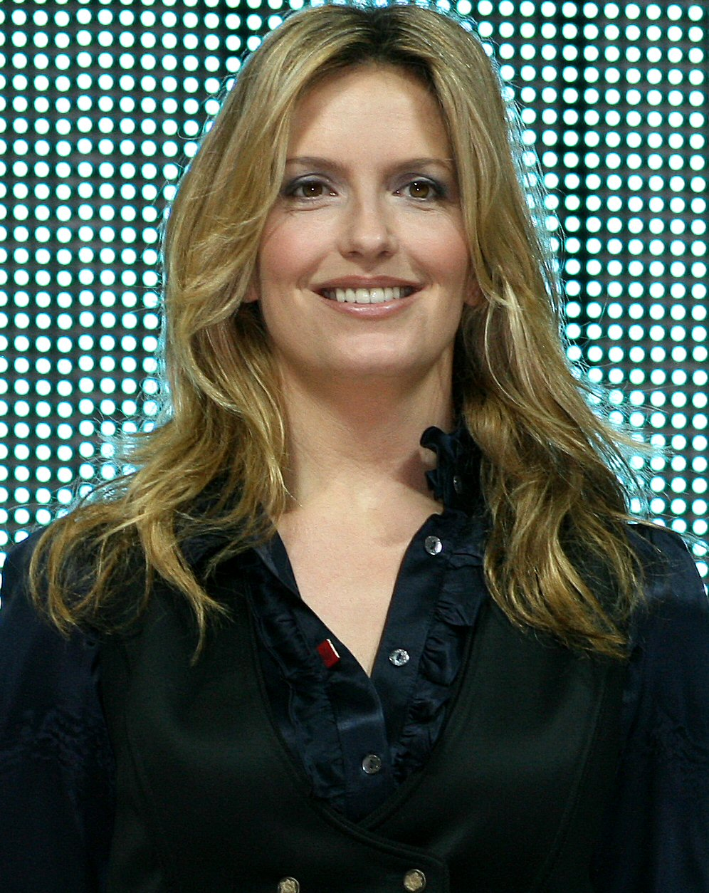 Penny Lancaster 2008